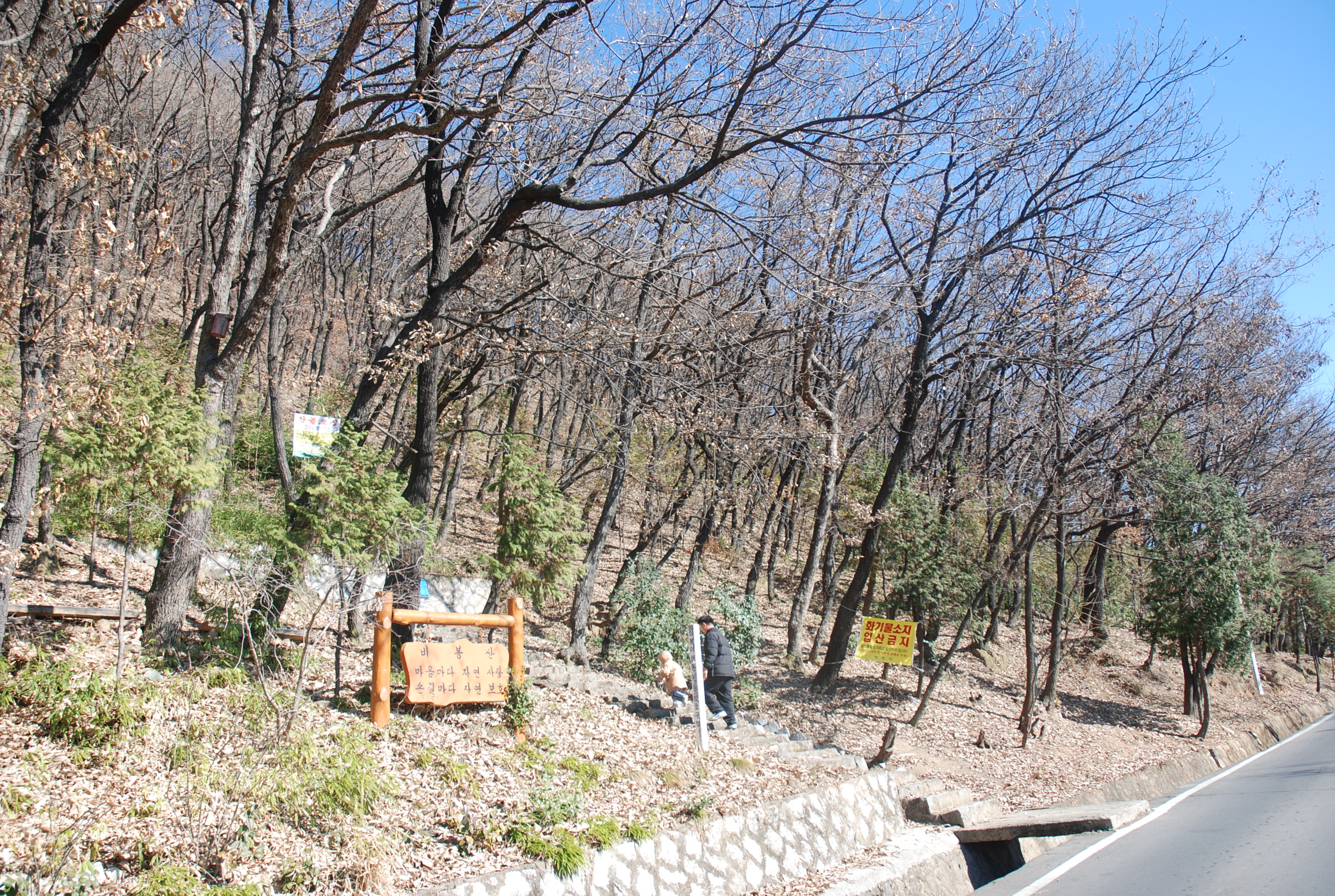 Mt. Bibong at Jinju